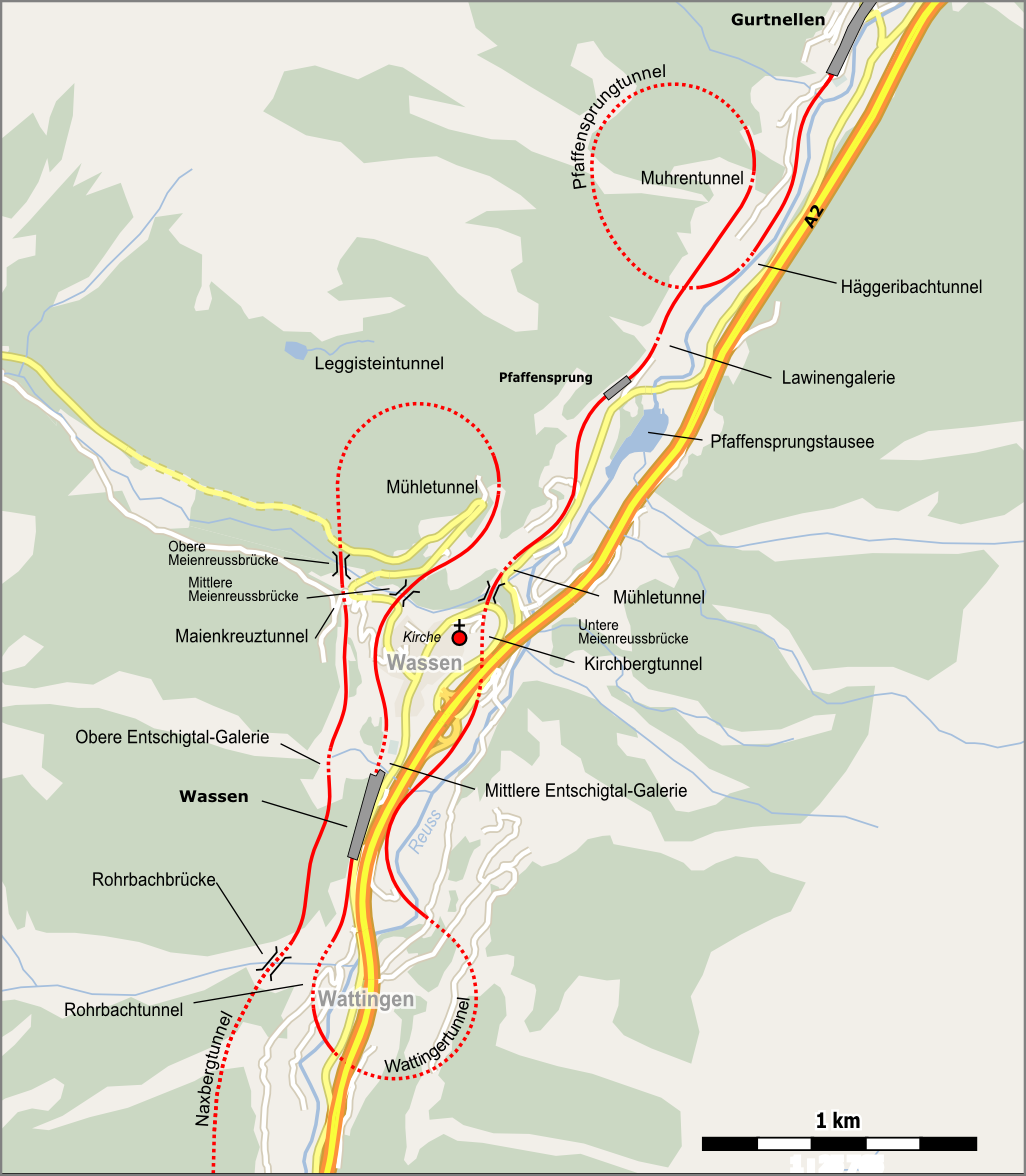 Outline of the Pfaffensprung spiral tunnel and the double loop at Wassen on the northern ramp to the Gotthard tunnel.